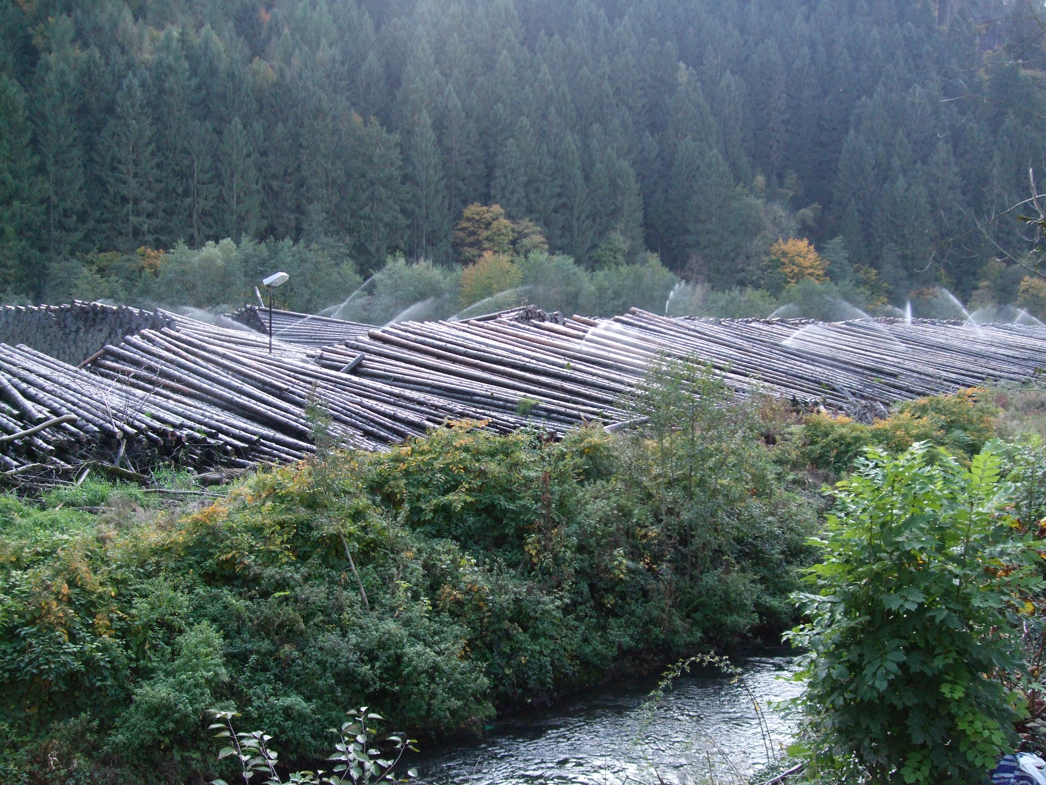 Stored wood conserved with water, at river Lenne, Germany